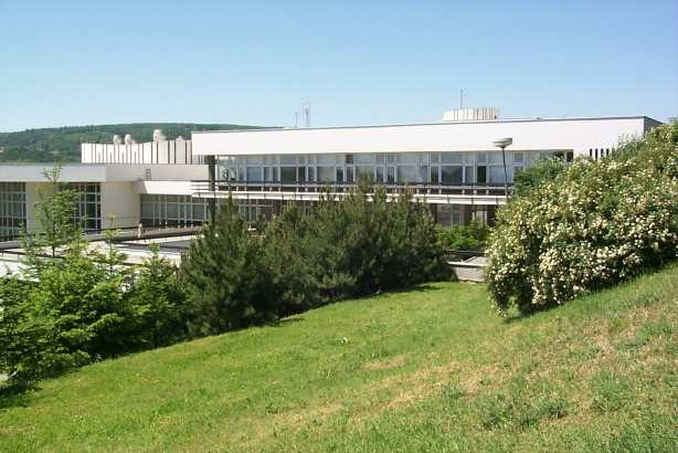 Department of Anthropology